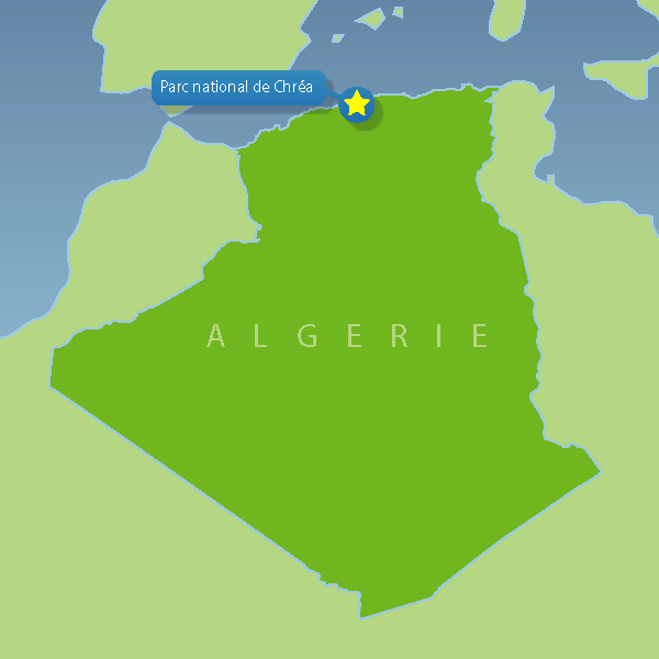 Map of National parks of Algeria, Chrea National park